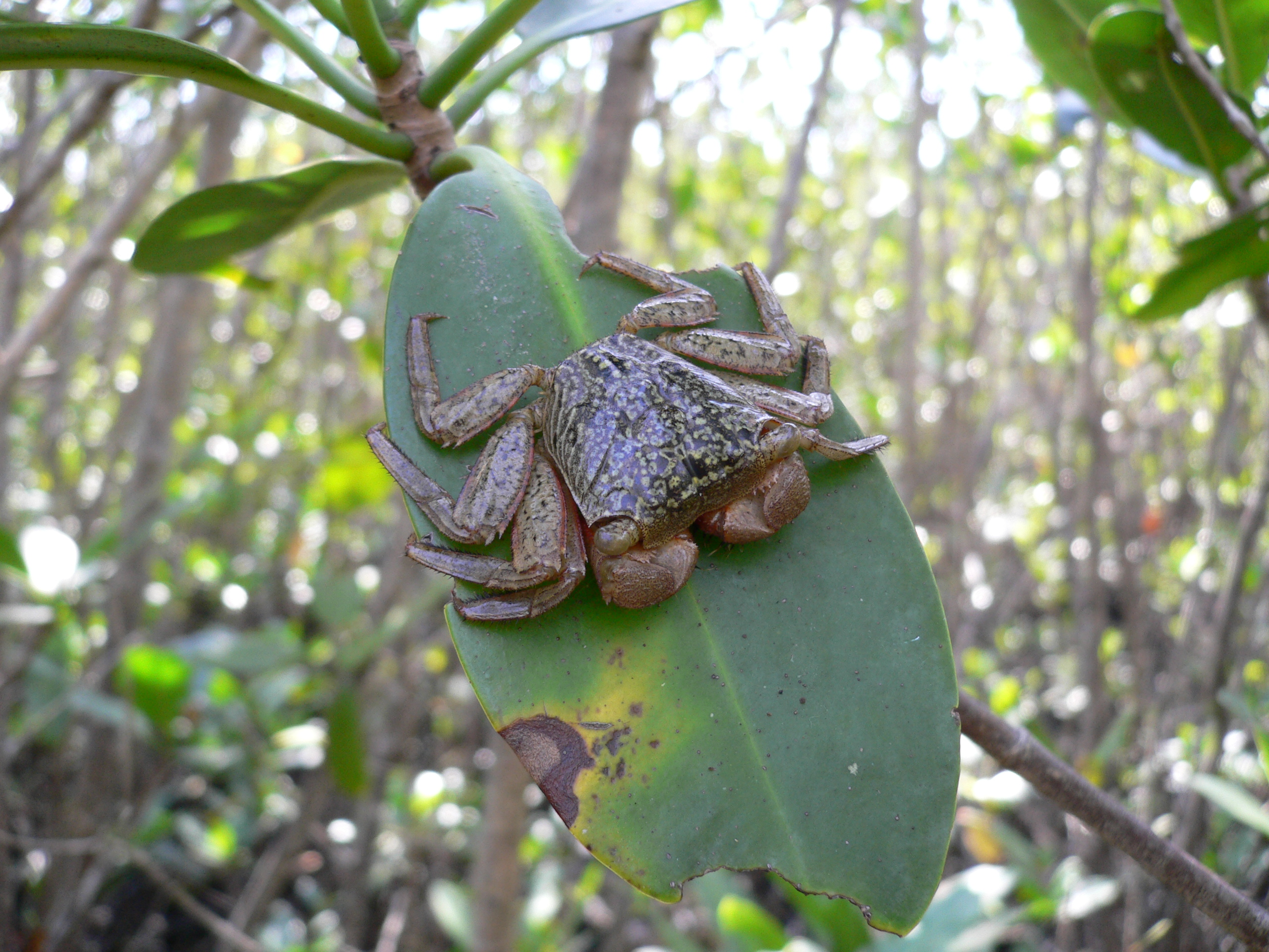 Mangrove Tree Crab, NPSPhoto, David Grimes